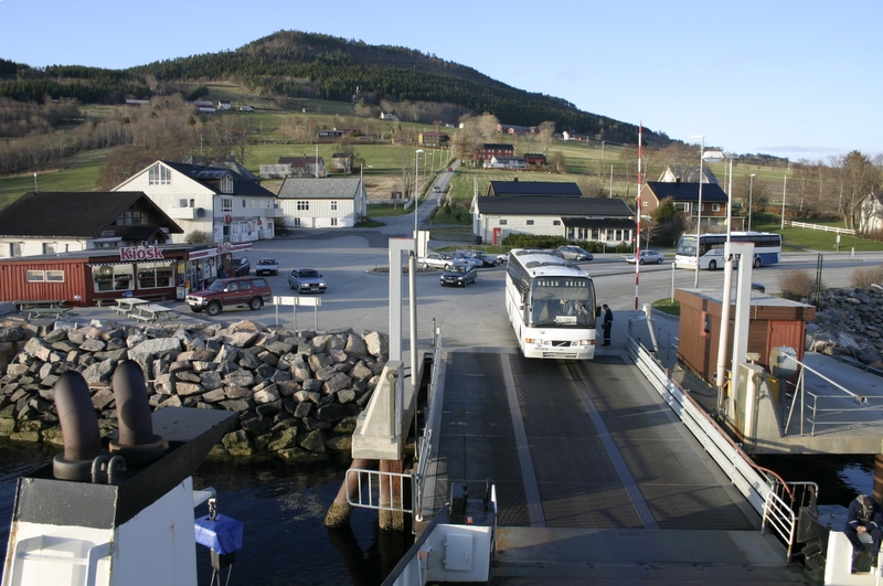 A ferry in Halsa, Norway is loading vehicles.